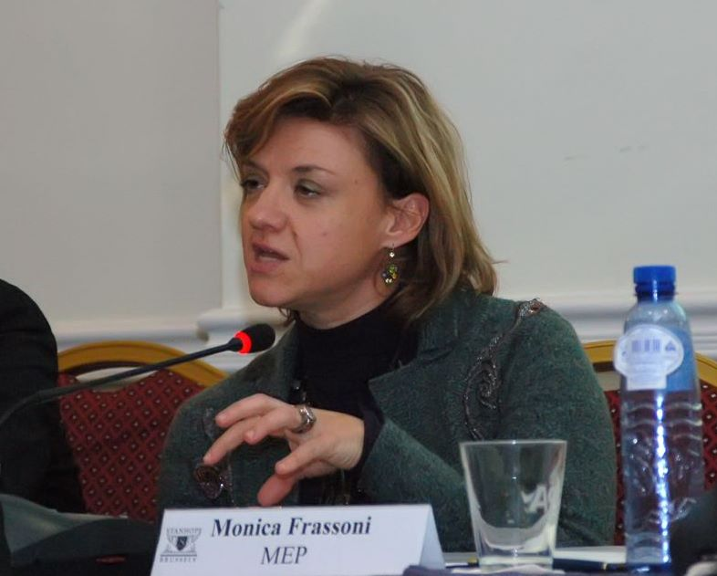 Green MEP Monica Frassoni speaking at the European Movement's Speak Up Europe event on 29 November 2007